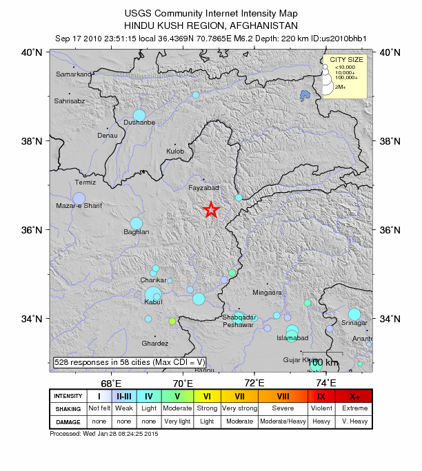 M 6.3 - Hindu Kush region, Afghanistan 2010-09-17 19:21:15 (UTC)